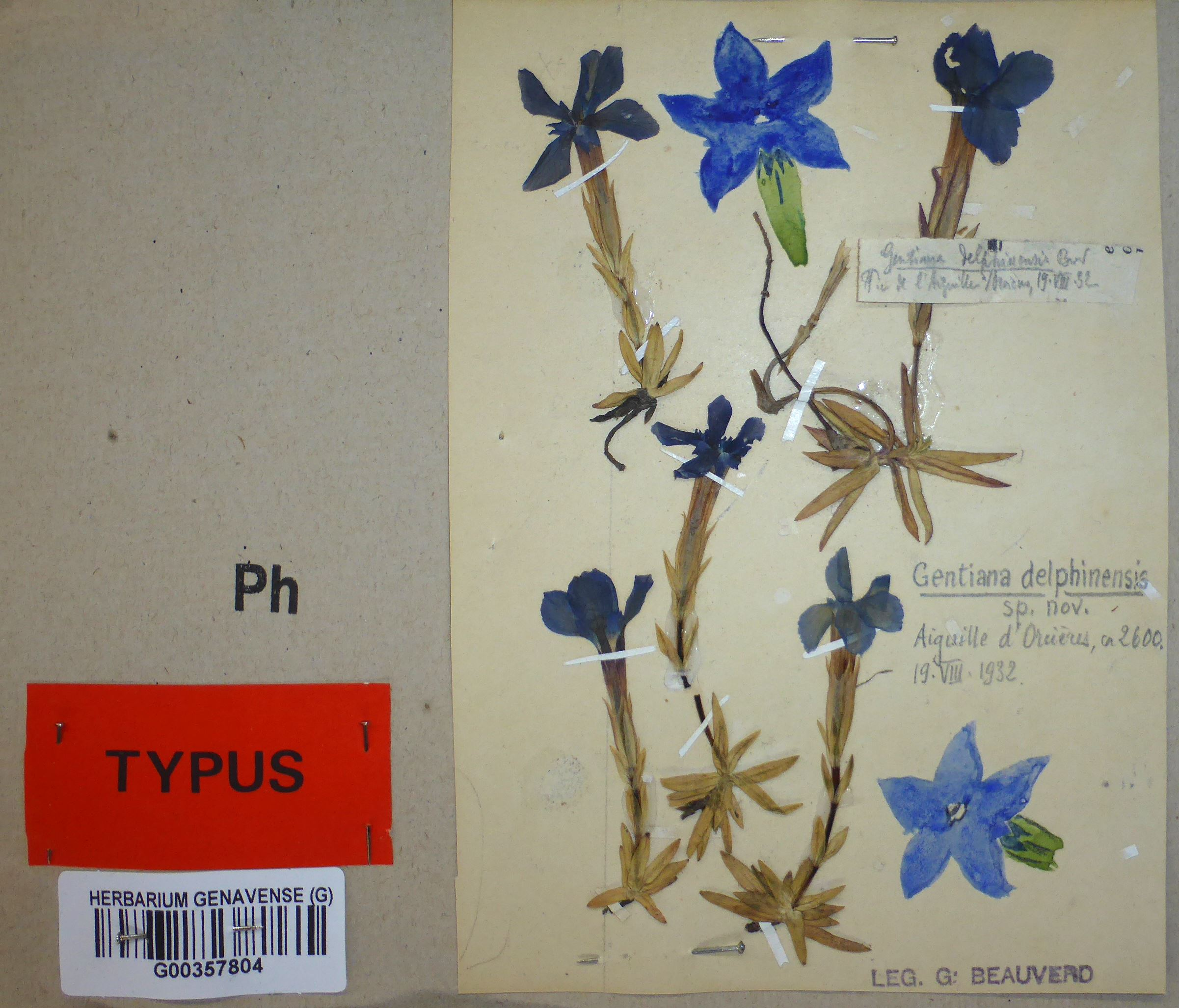 Holotype of Gentiana delphinensis. In a public exhibition in the Botanical Garden of Geneva.